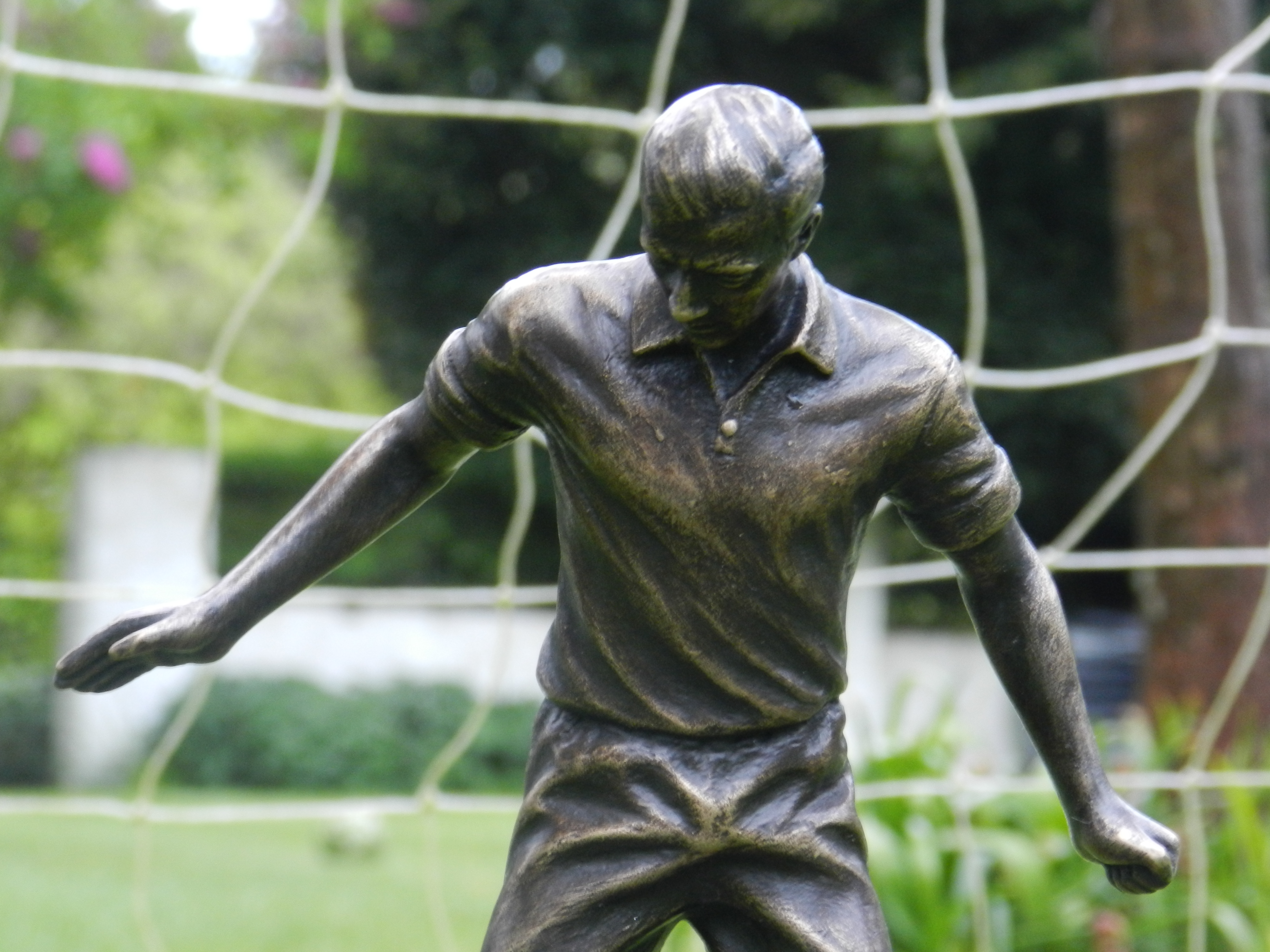 Football Writers Association's Player of the Year Award from 2015 produced by in conjunction with sculptor James Matthews